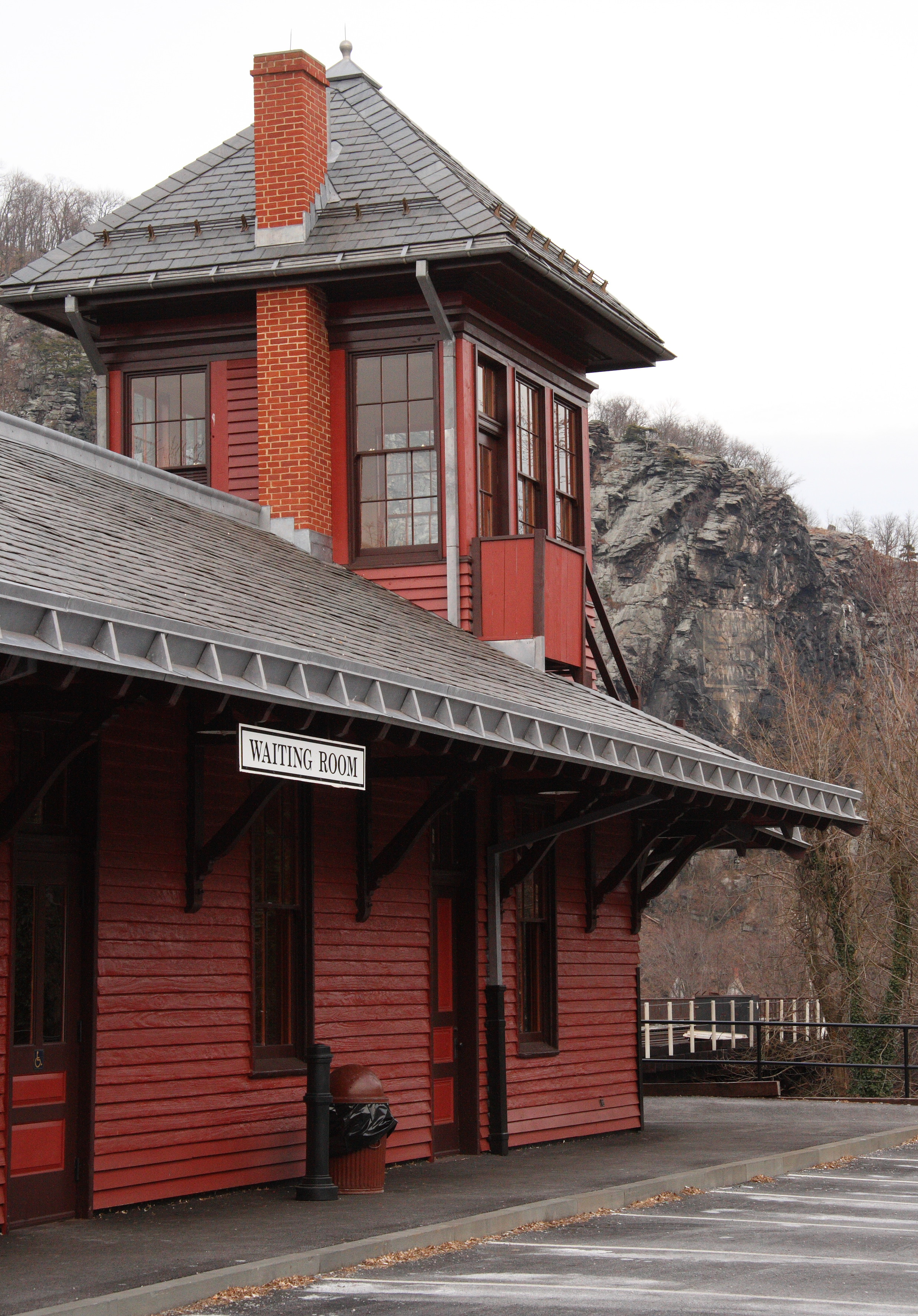 Harpers Ferry Station, West Virginia, USA, looking toward Maryland Heights